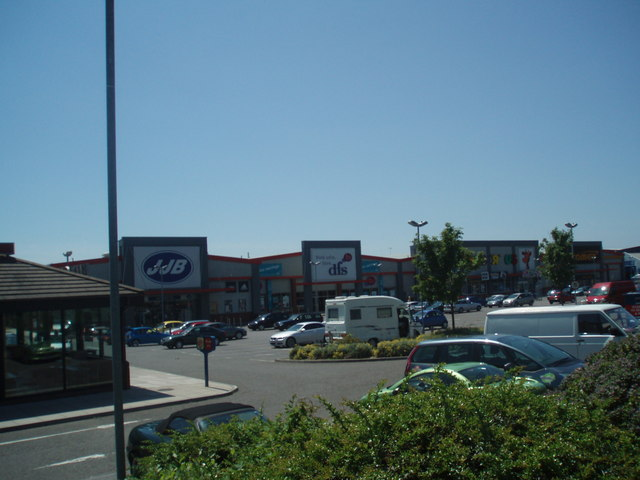 Goldstone Retail Park Built on the former Goldstone Ground, much loved home of Brighton and Hove Albion from 1902 to 1997